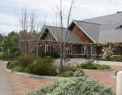 An exterior photograph of the Belvedere-Tiburon Library in Tiburon, California.